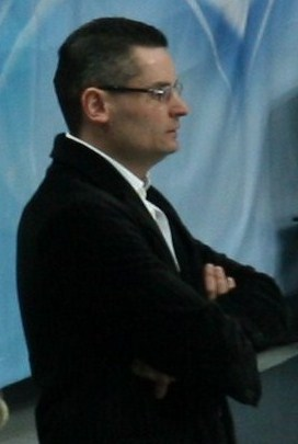 Dmitri Palamarchuk as a coach Irina Movchan at the 2011 World Figure Skating Championships